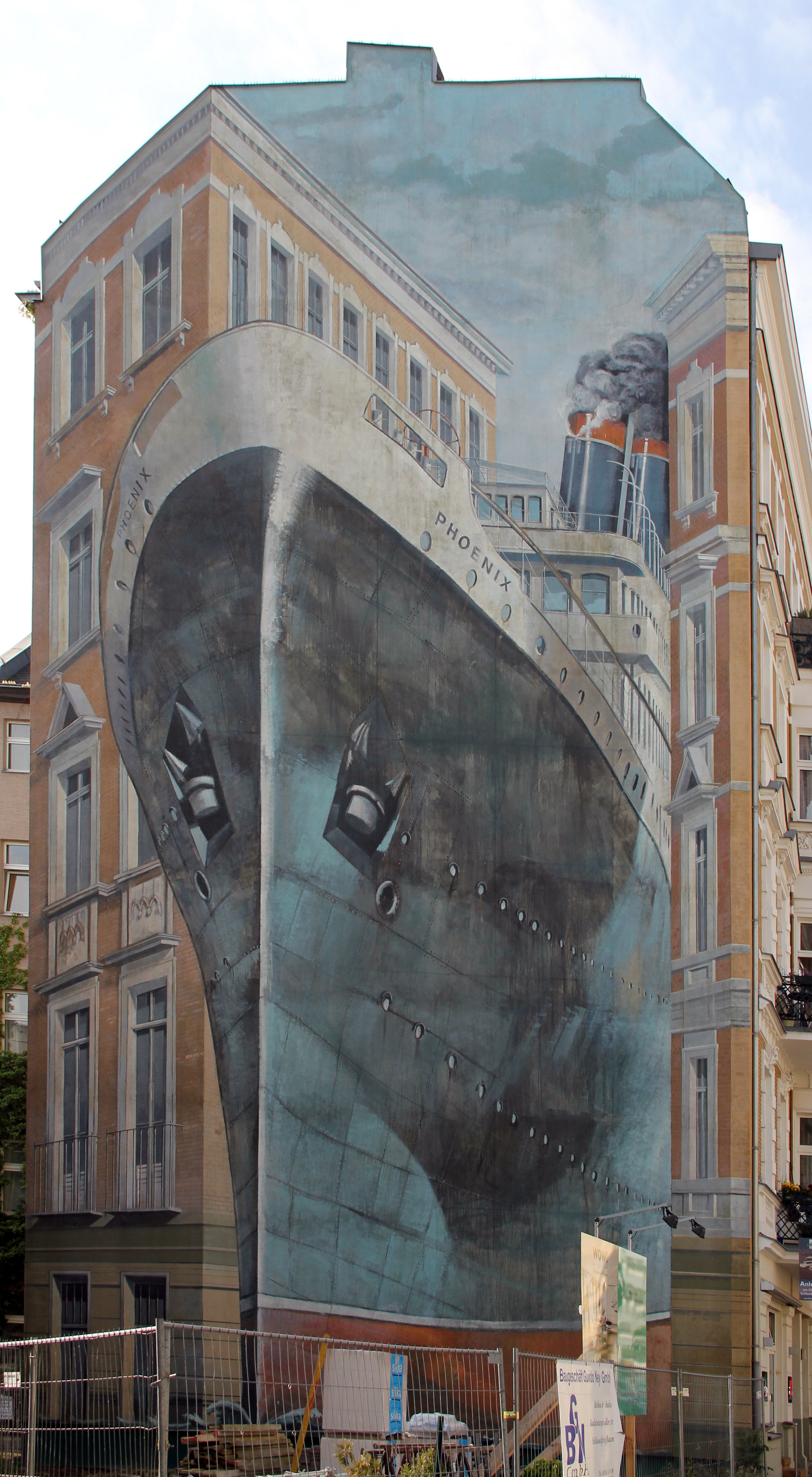 Murals, Phoenix, by Gert Neuhaus, 1989, Wintersteinstraße 20, Berlin-Charlottenburg, Germany